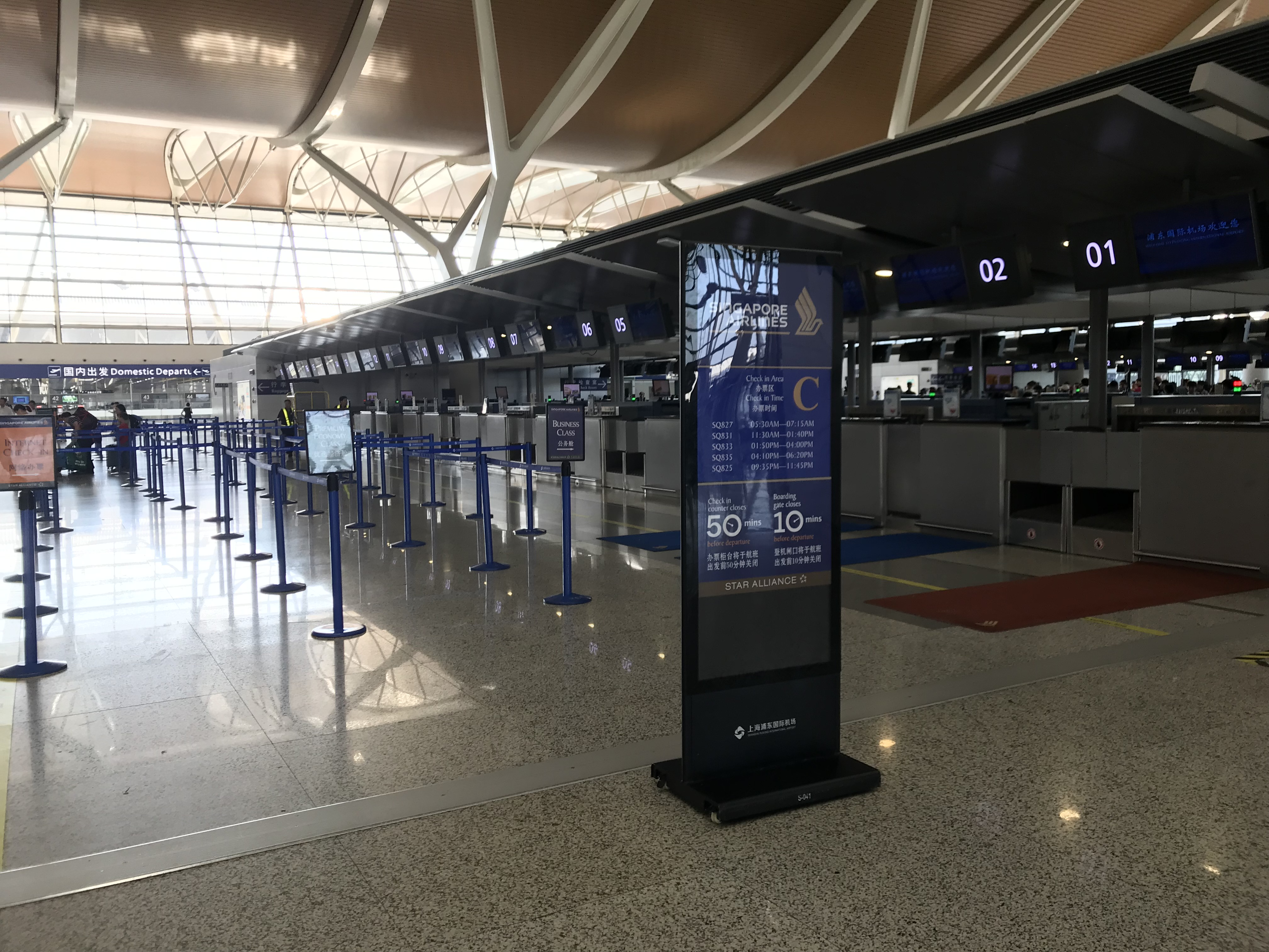 201908 Singapore Airlines Check-in Counter at PVG